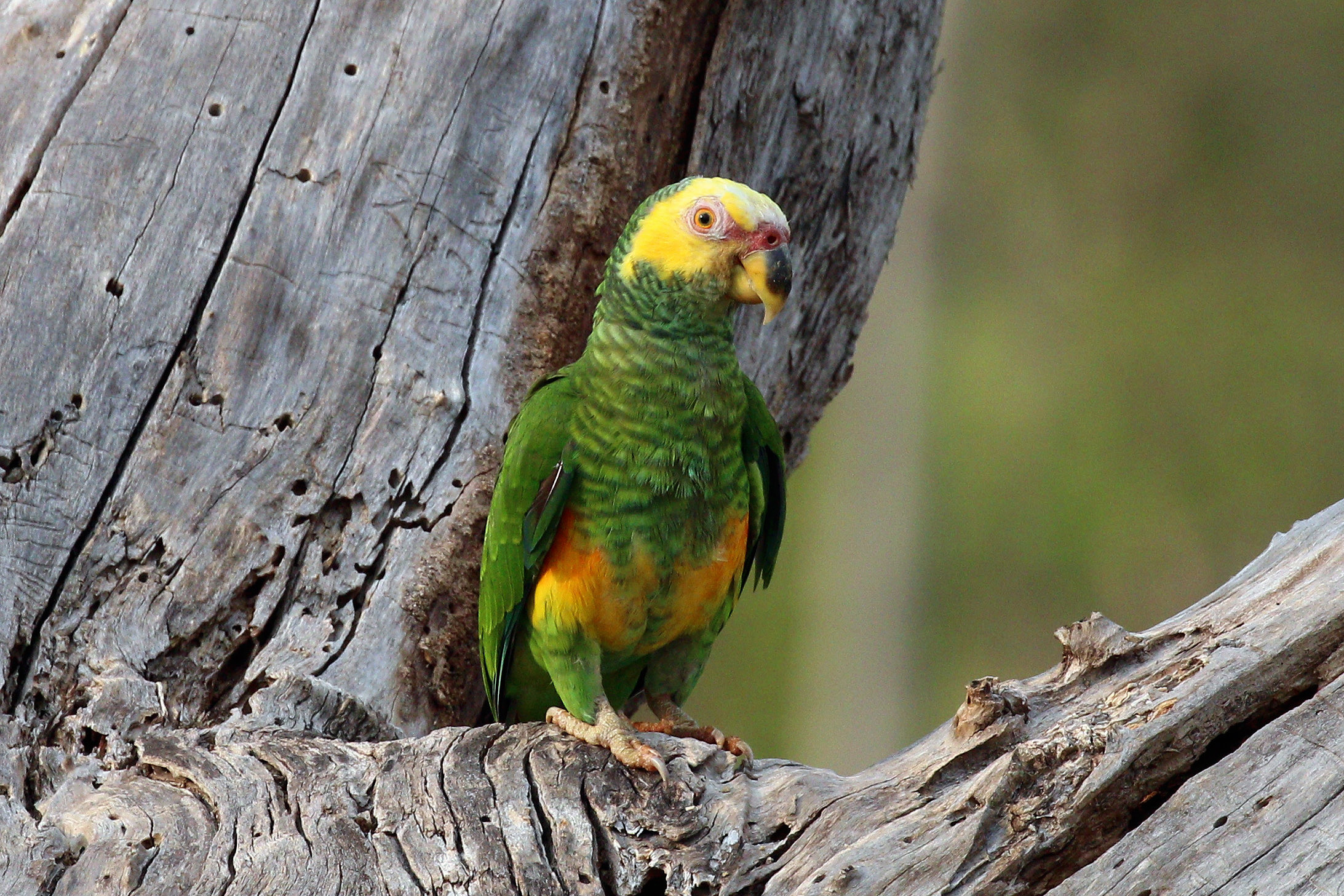 Yellow-faced parrot (Alipiopsitta xanthops) yellow morph, the Pantanal, Brazil